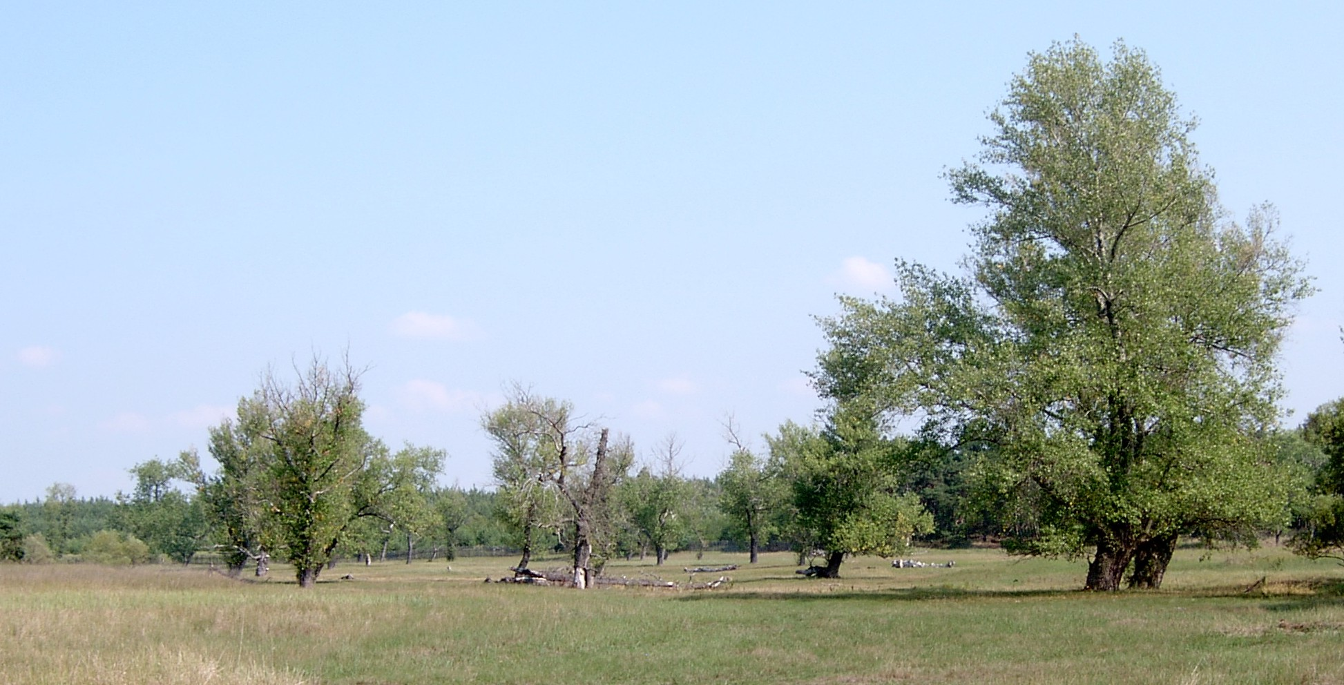 Populus nigra on the Odra river, NW Poland